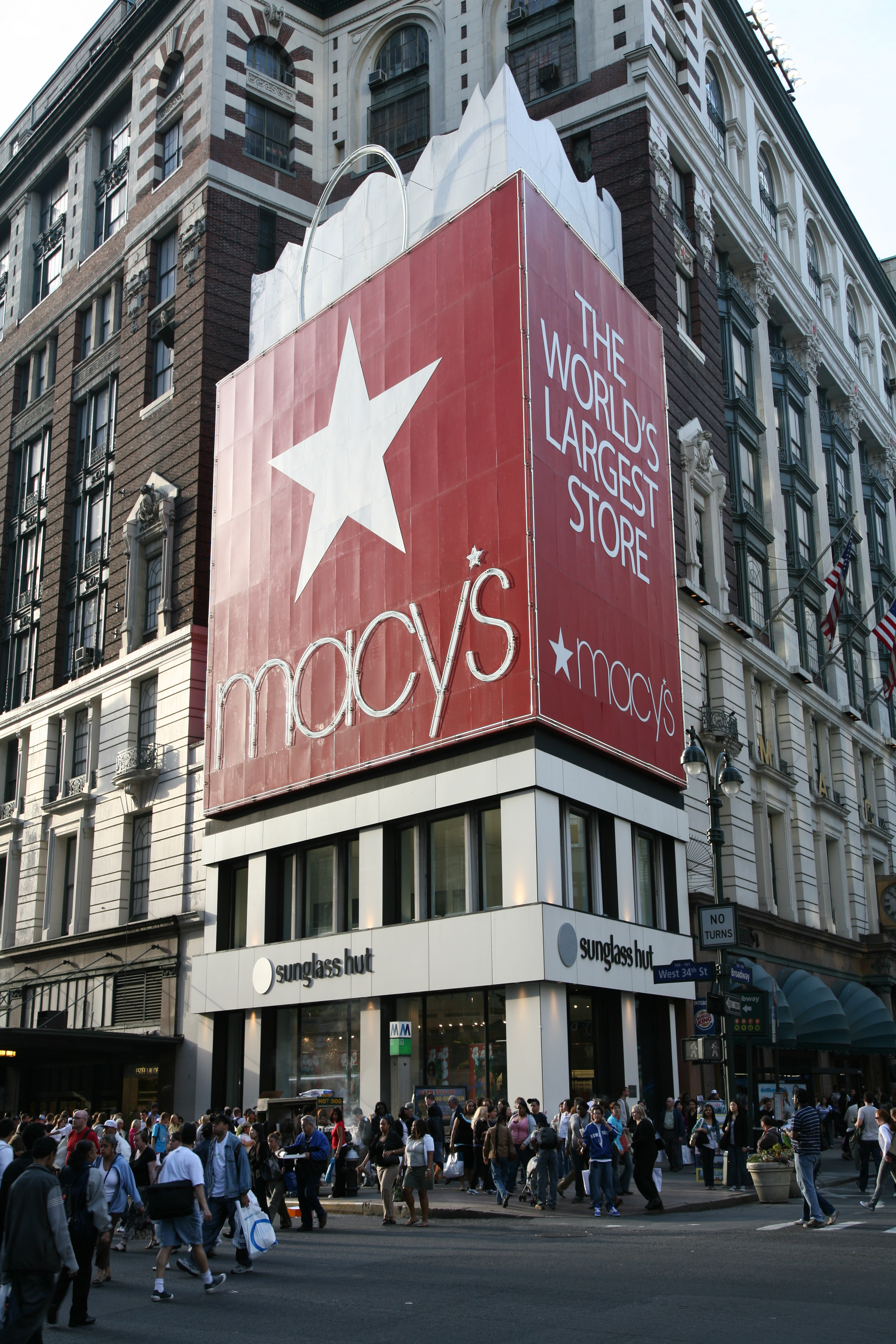 Macy's department store. New York City, USA